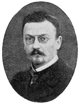 Image scanned from the book "Svenskt Porträttgalleri XX - Arkitekter, Bildhuggare, Målare m.fl. " ("Swedish Portrait Gallery XX - Architects, Sculptors, Painters, ") published 1901